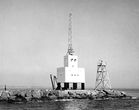 Public Domain statement here; Long Beach "Robot" Light, 1949 (CA)